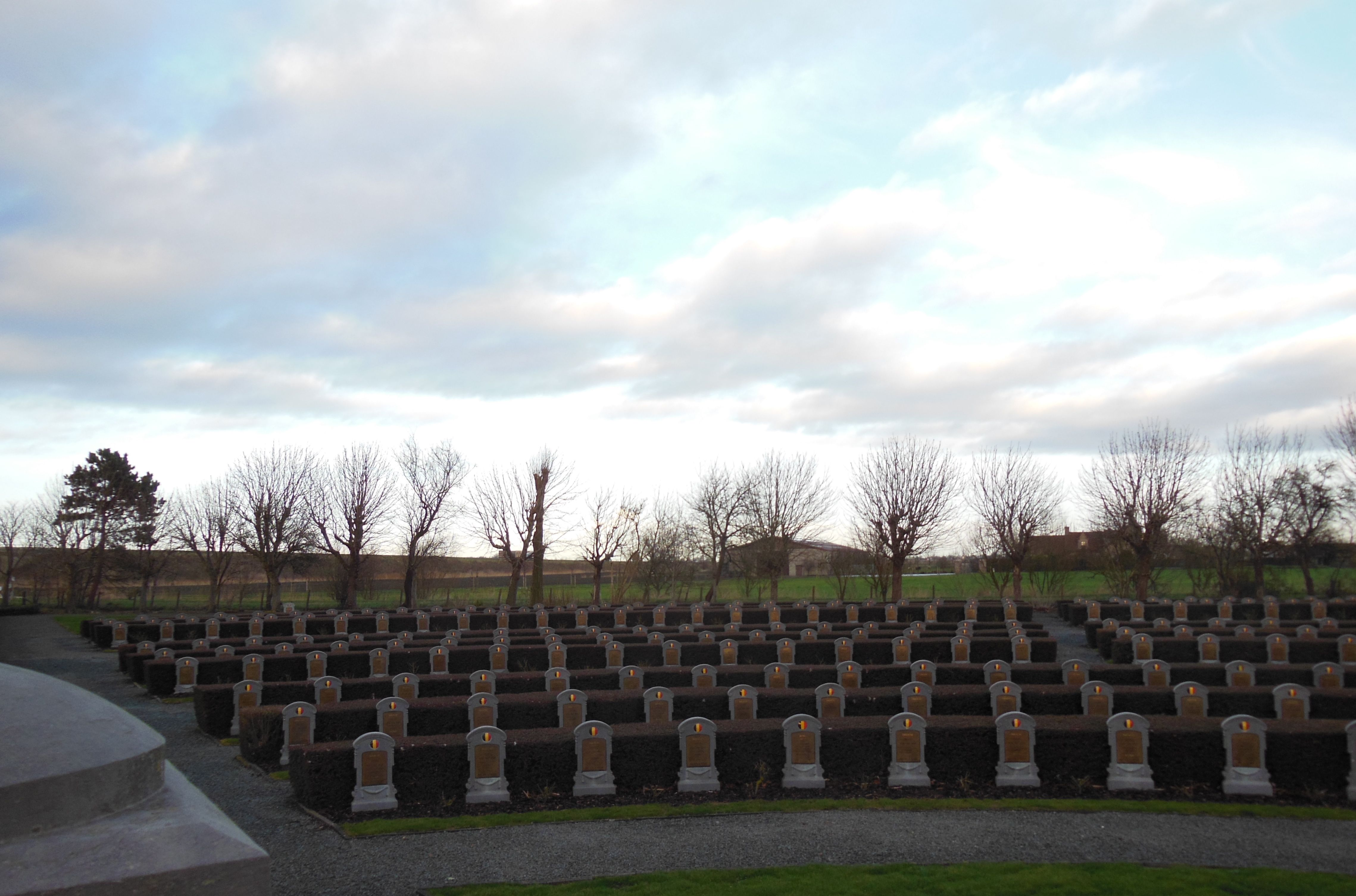 Panoramic view of the Belgian military cemetery Ramskapelle